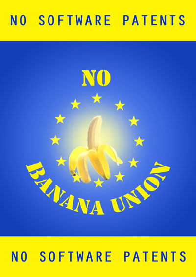 Banner of the EU-banana-union campaign of the FFI.